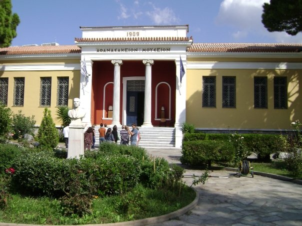 Archaeological Museum of Volos, Volos, Greece. Intended for use on Archaeological Museum of Volos, Volos, or other museum-related articles